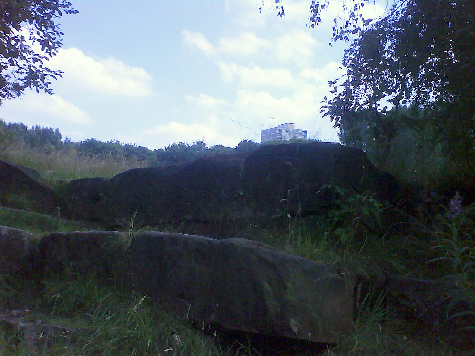 Collyhurst sandstone in Sandhills park. This outcrop, which has been blackened by industrial pollution, is the only stone still exposed at Collyhurst quarry.